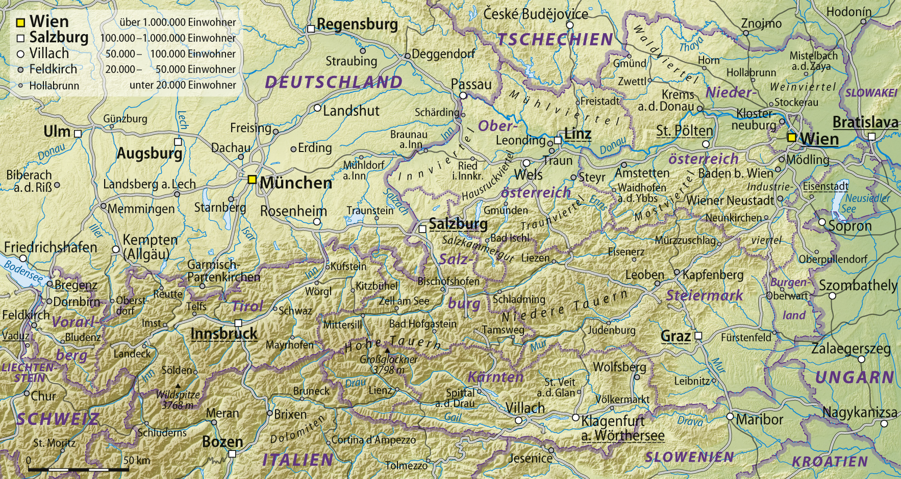 General map of Austria